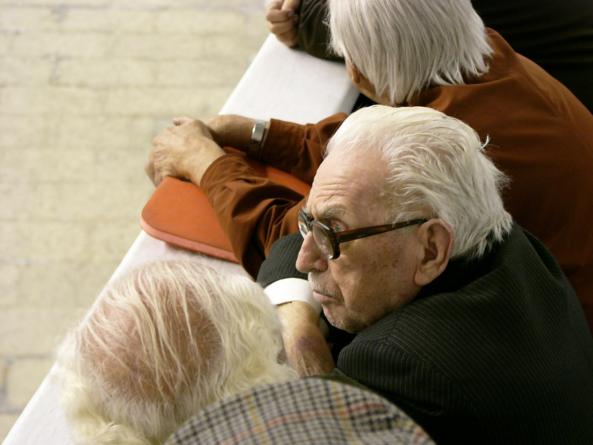 Valencian pilota late columnist Josep Lluís Bausset, aged 98, watching a match from the authorities tribune in Valencia's trinquet